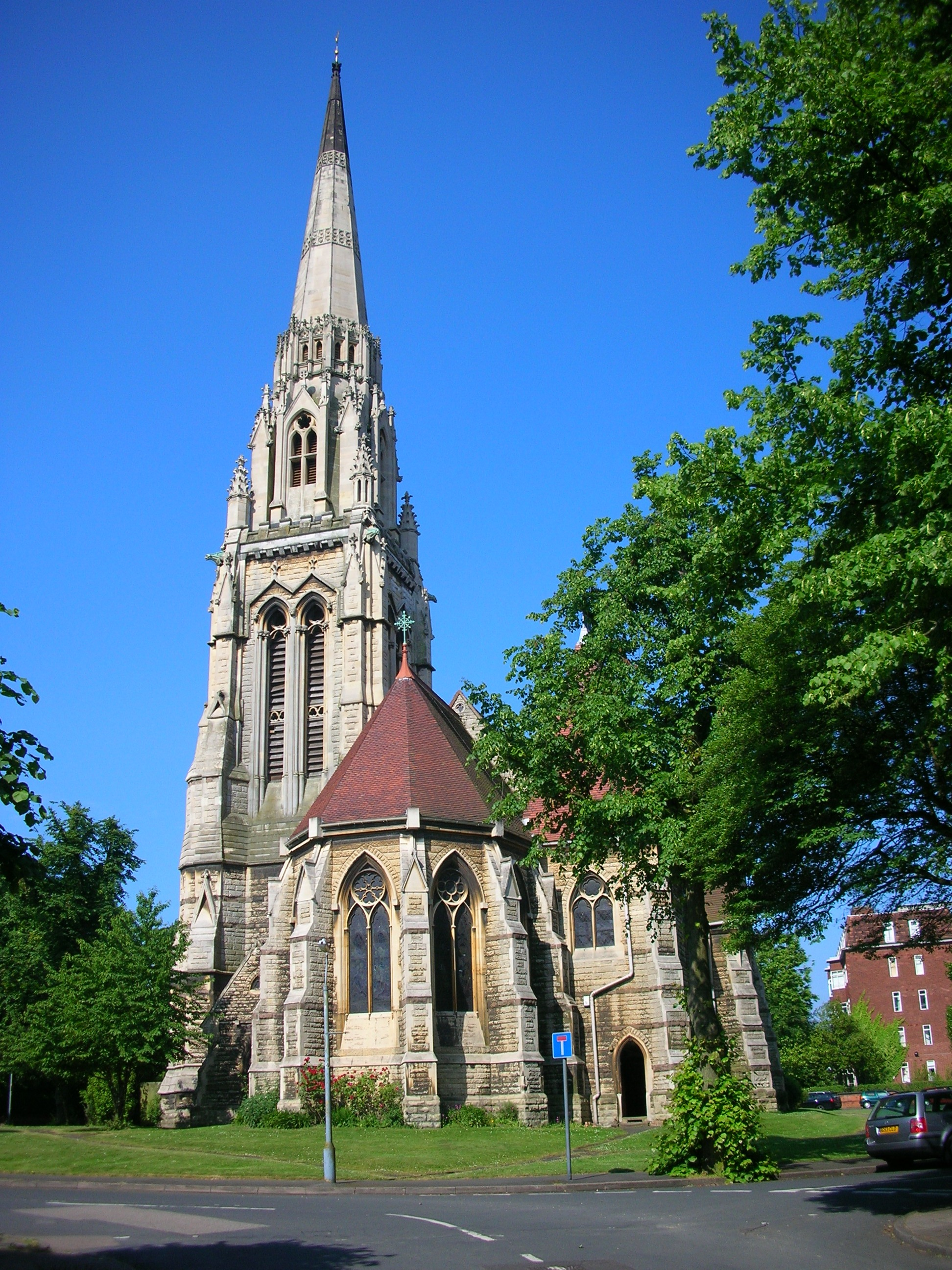 Church of England parish church of St Augustine, Edgbaston, Birmingham, England. The church was designed by J. A. Chatwin and built in 1868 The tower and spire were added in 1876.